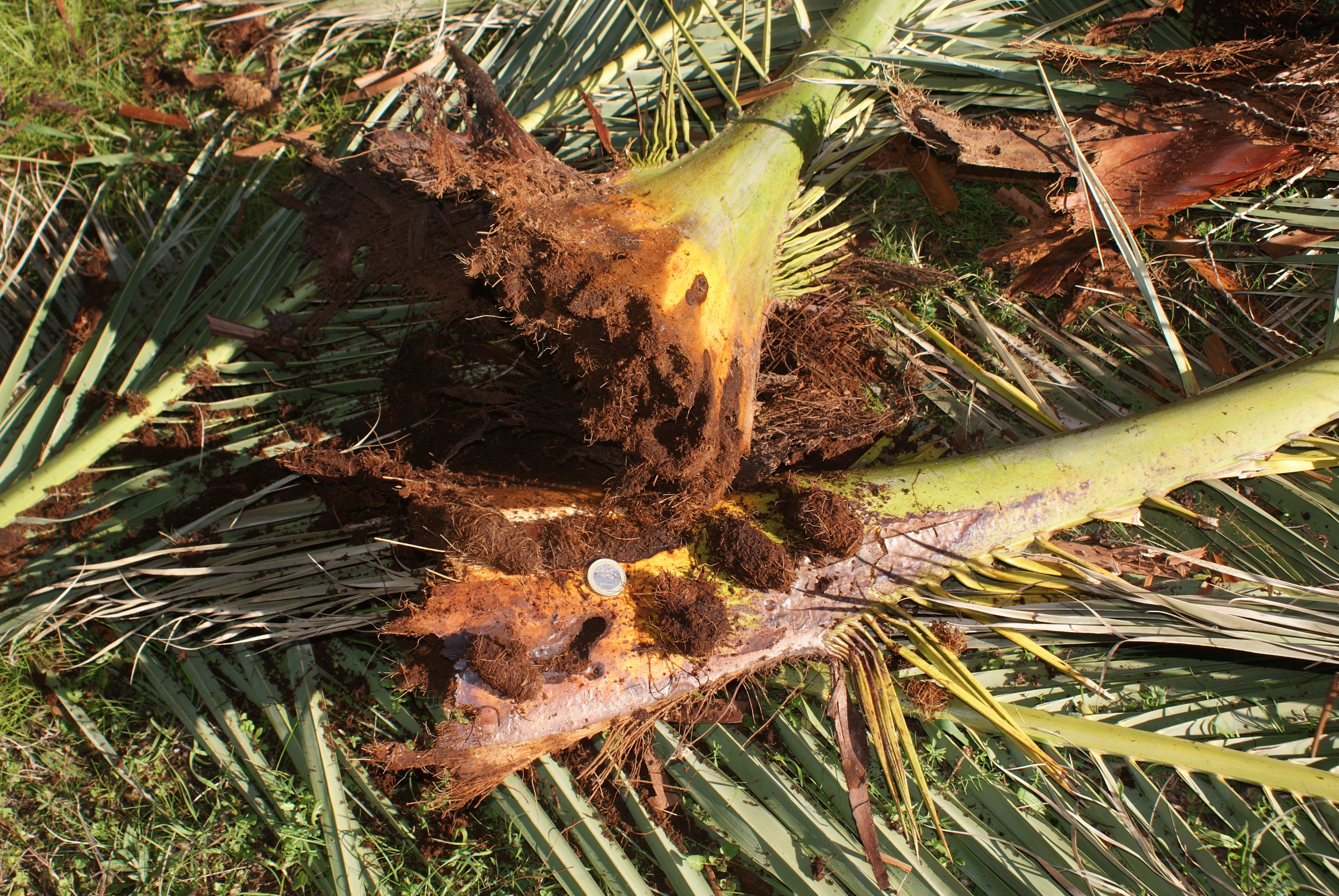 Leaf bases of a Canary Island date palm, Phoenix canariensis, with burrows of the red palm weevil, Rhynchophorus ferrugineus, and with pupal cases collected from the burrows. Near Alistro, Corsica, 30 Dec 2012. The coin is a one Euro coin, diameter 23.25 mm